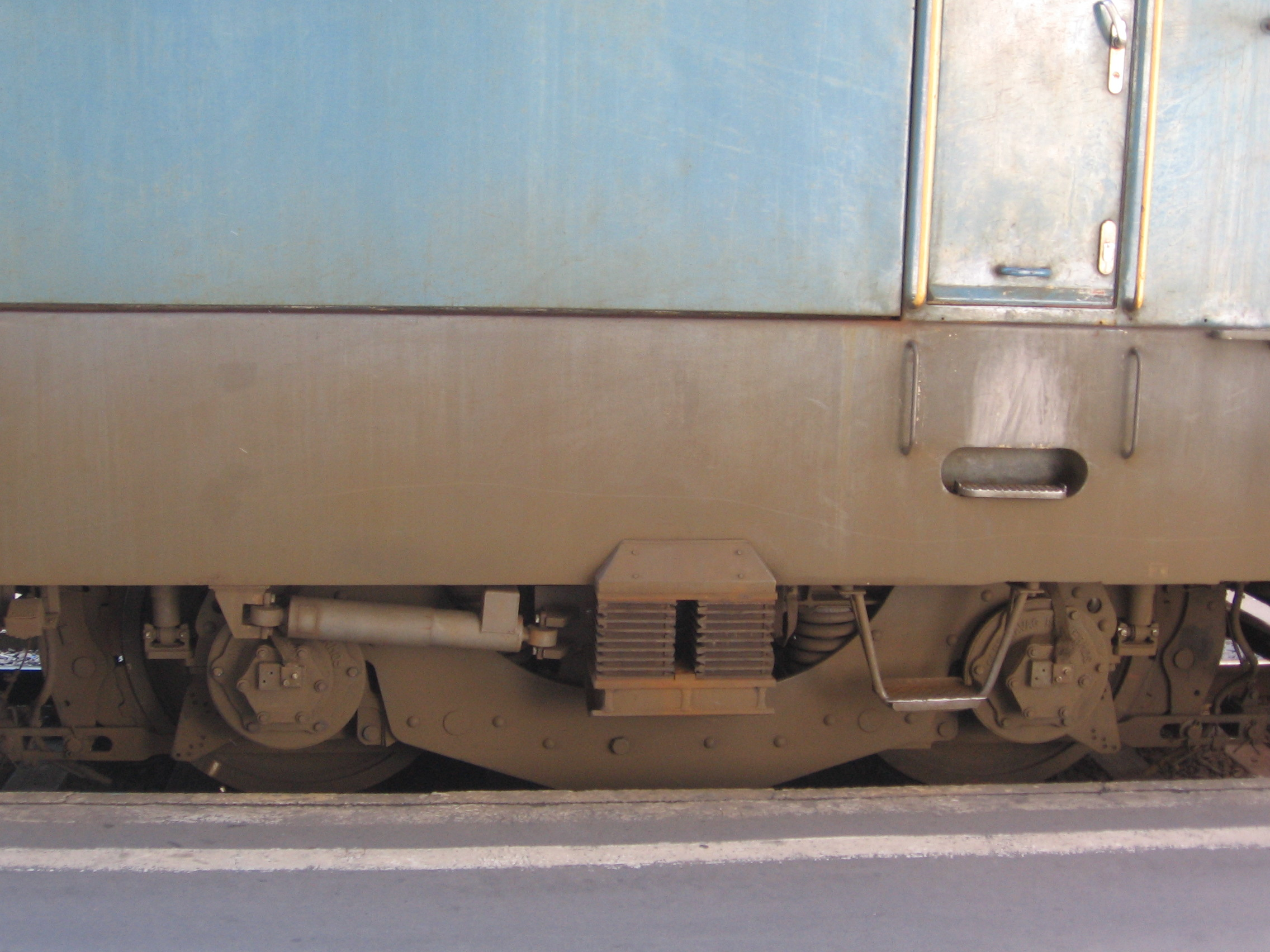 Bogie of H-START 431 365 with upgraded secondary suspension.